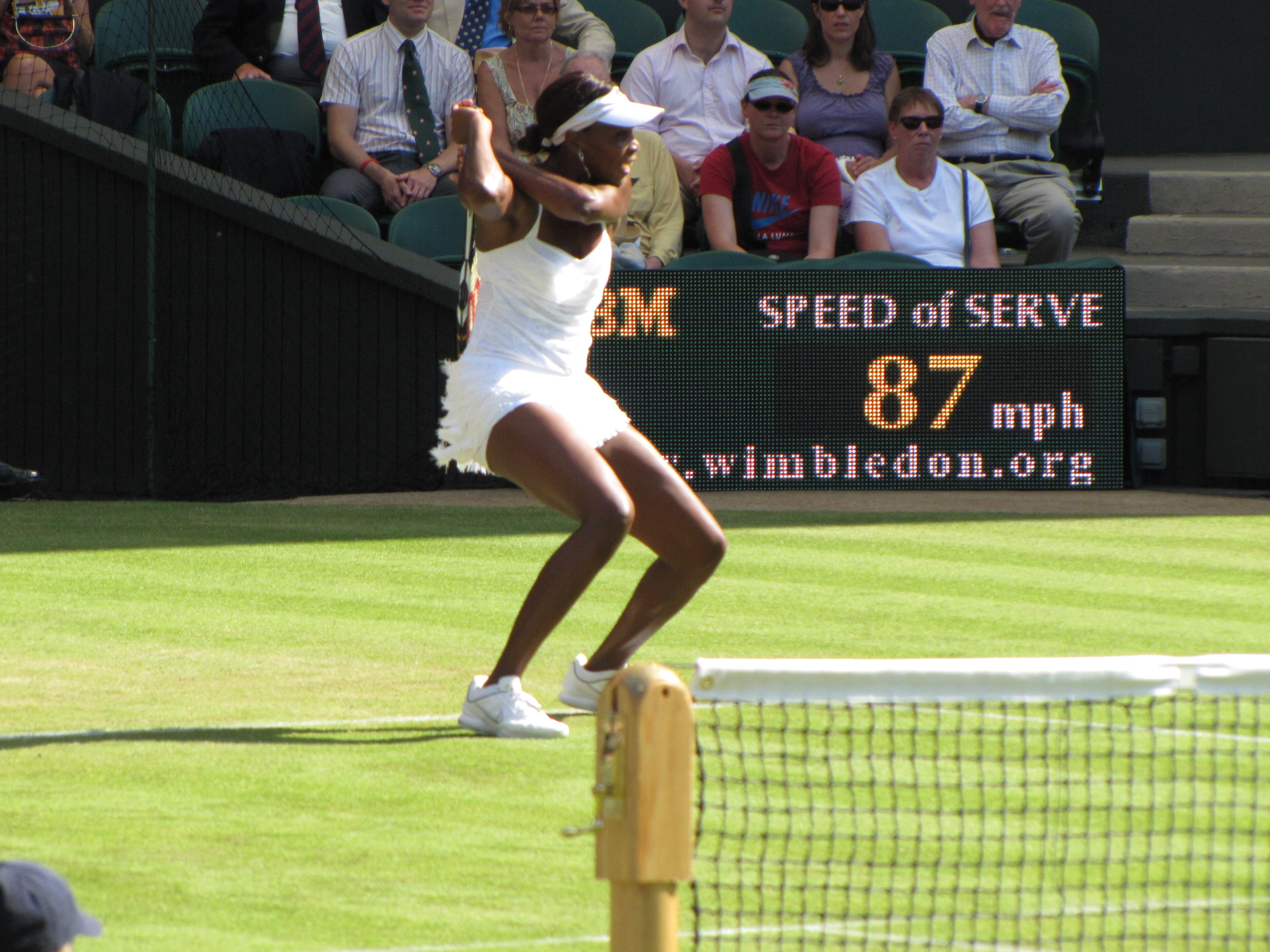 Venus Williams, 2010 Wimbledon Championships